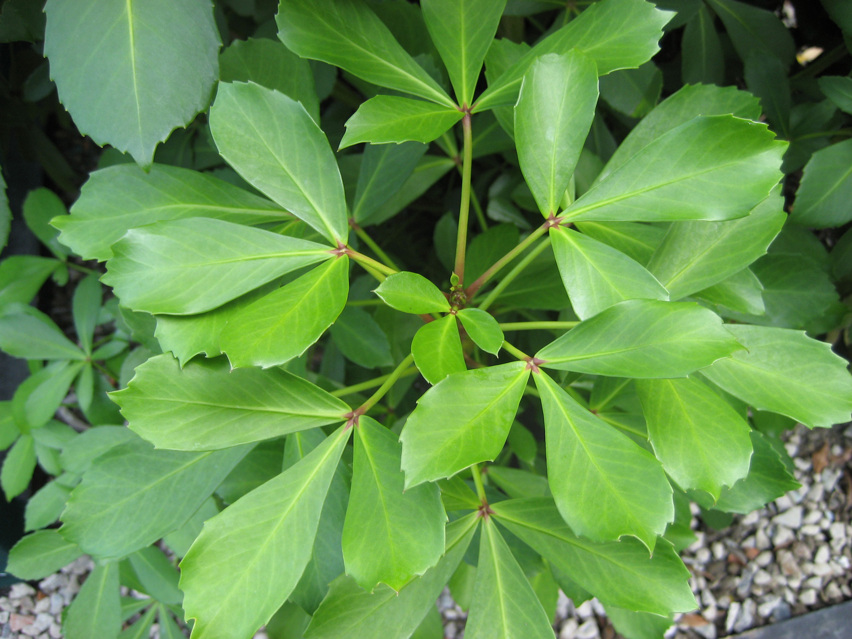 Foliage of a young Houpara, Pseudopanax lessonii, Auckland, New Zealand